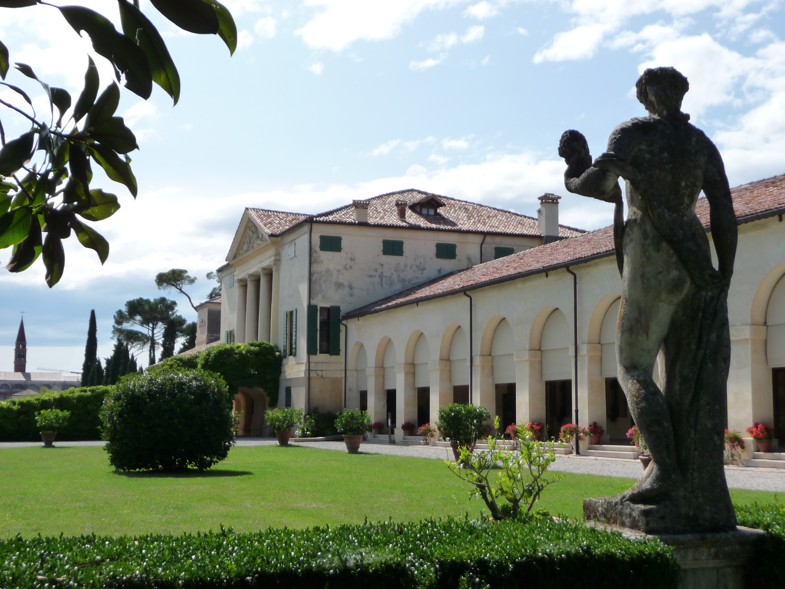 Villa Emo in Fanzolo di Vedelago, province of Treviso, Italy, designed by Andrea Palladio about 1558.